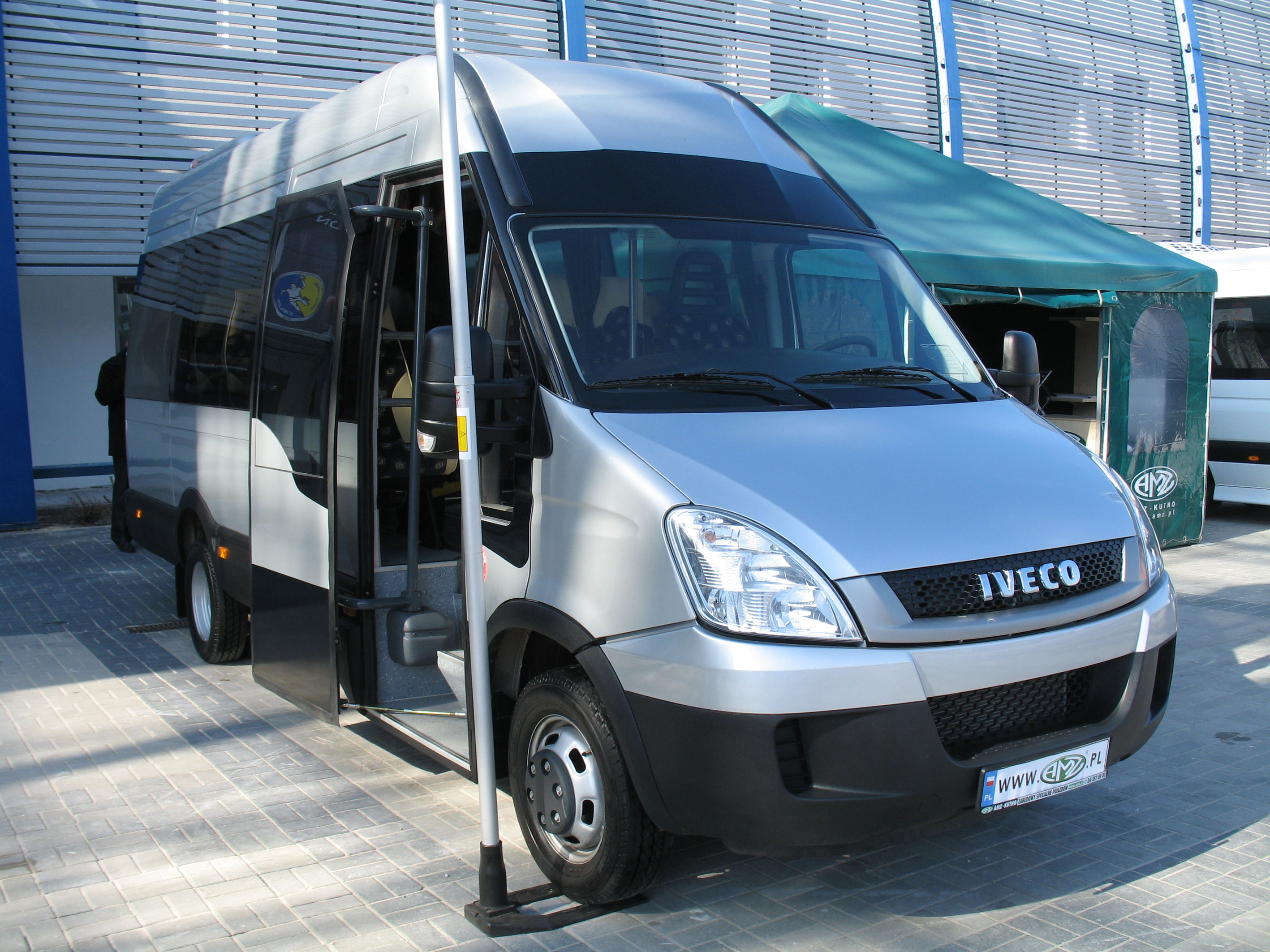 AMZ Iveco Daily 50C17 bus in Kielce, Poland. Built 2010.